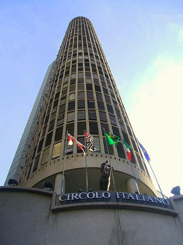 Itália Building, São Paulo, Brazil